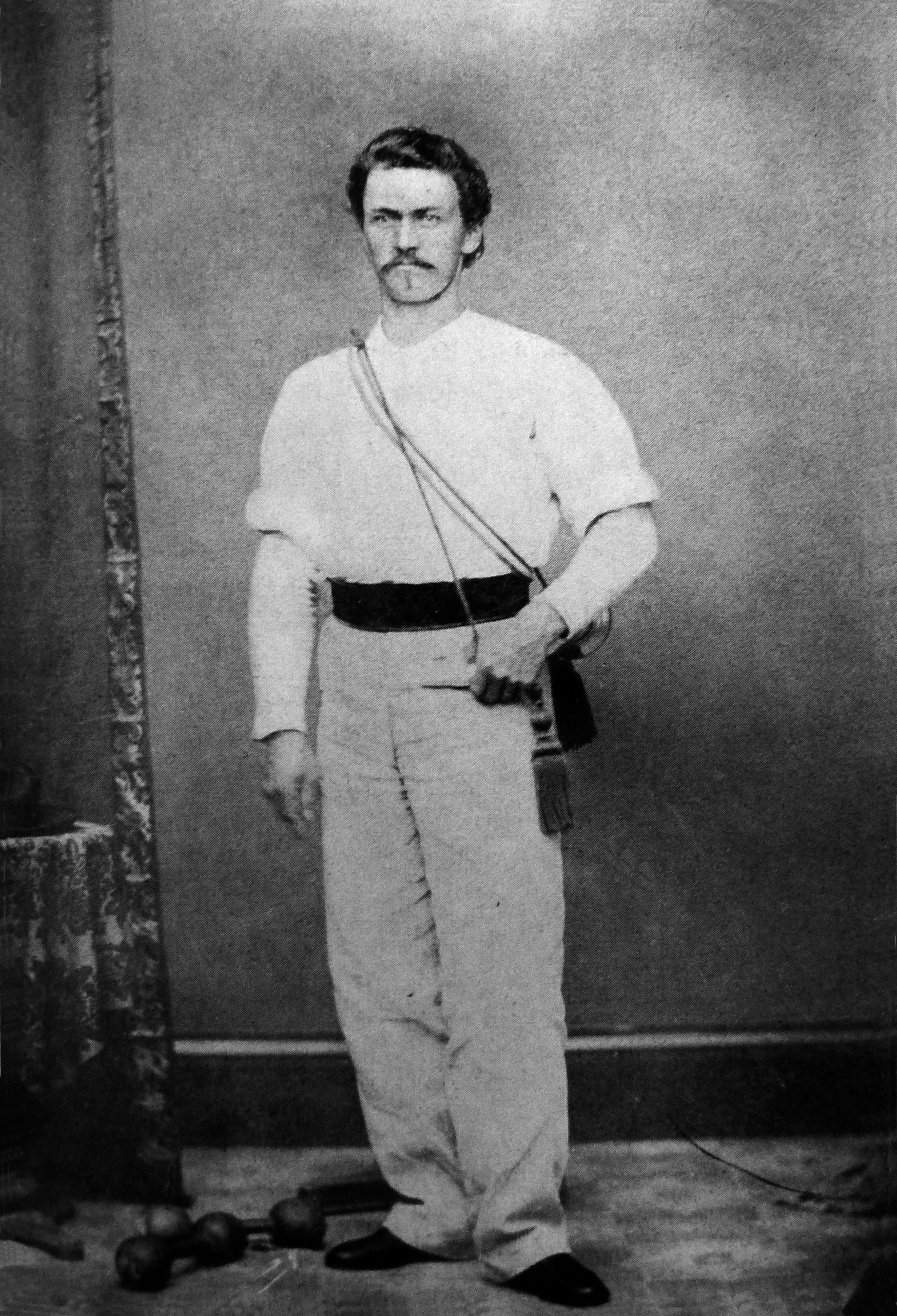 George Brosius, gymnastics coach, 1865.